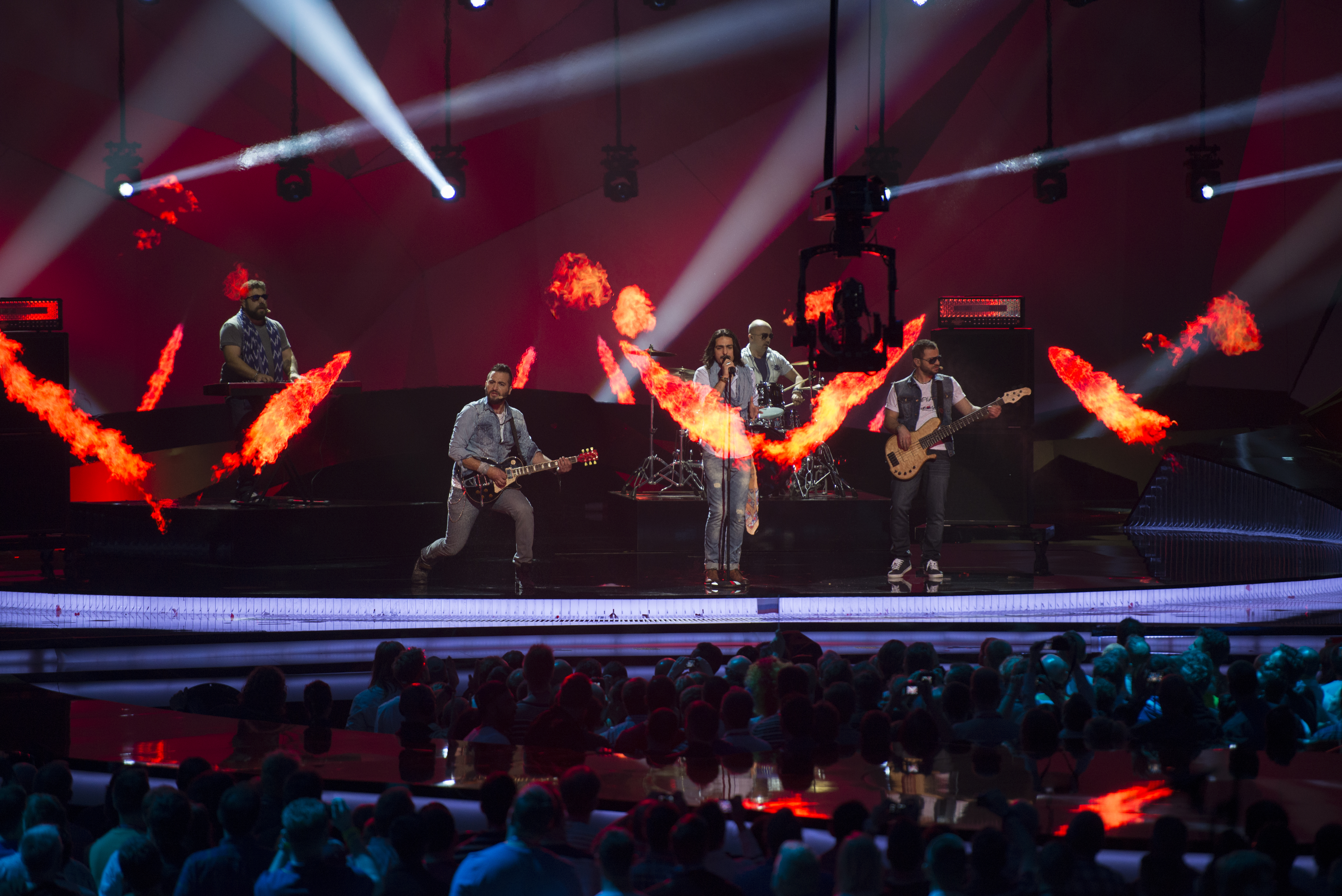 Dorians representing Armenia with the song "Lonely Planet" during the second dress rehearsal of the second semi final of the Eurovision Song Contest 2013 Malmö. (Help translate this text)